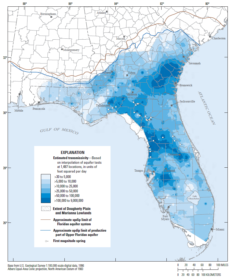 Estimated transmissivity of the Floridan aquifer sytem, southeastern United States (modified from Kuniansky and others, 2012).